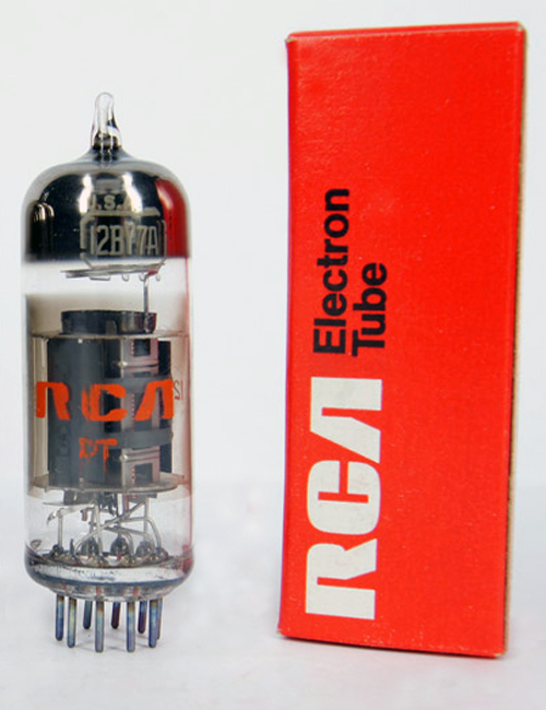 pentode 12BY7-A